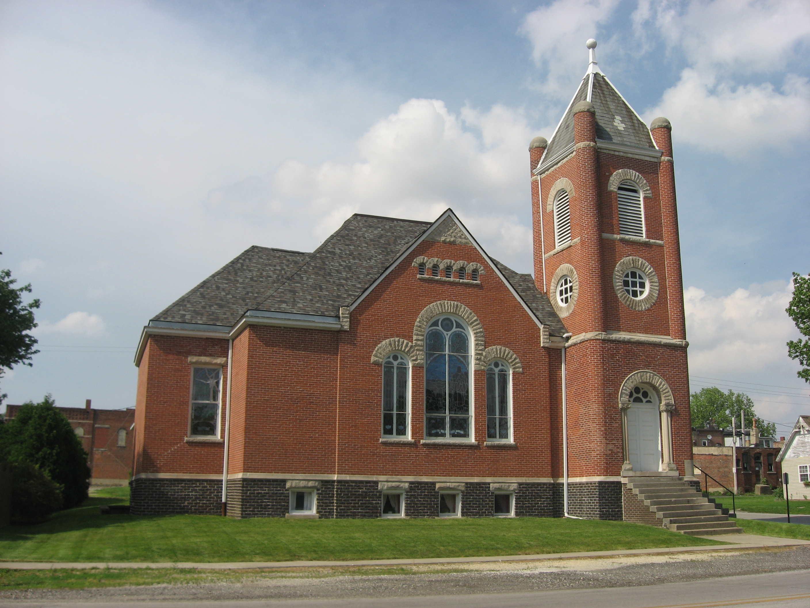 Front of the Oxford Presbyterian Church, located on the northwestern corner of the intersection of Benton and Justus Streets (State Roads 55 and 352 in Oxford, Indiana, United States. Built in 1902, it is listed on the National Register of Historic Places.